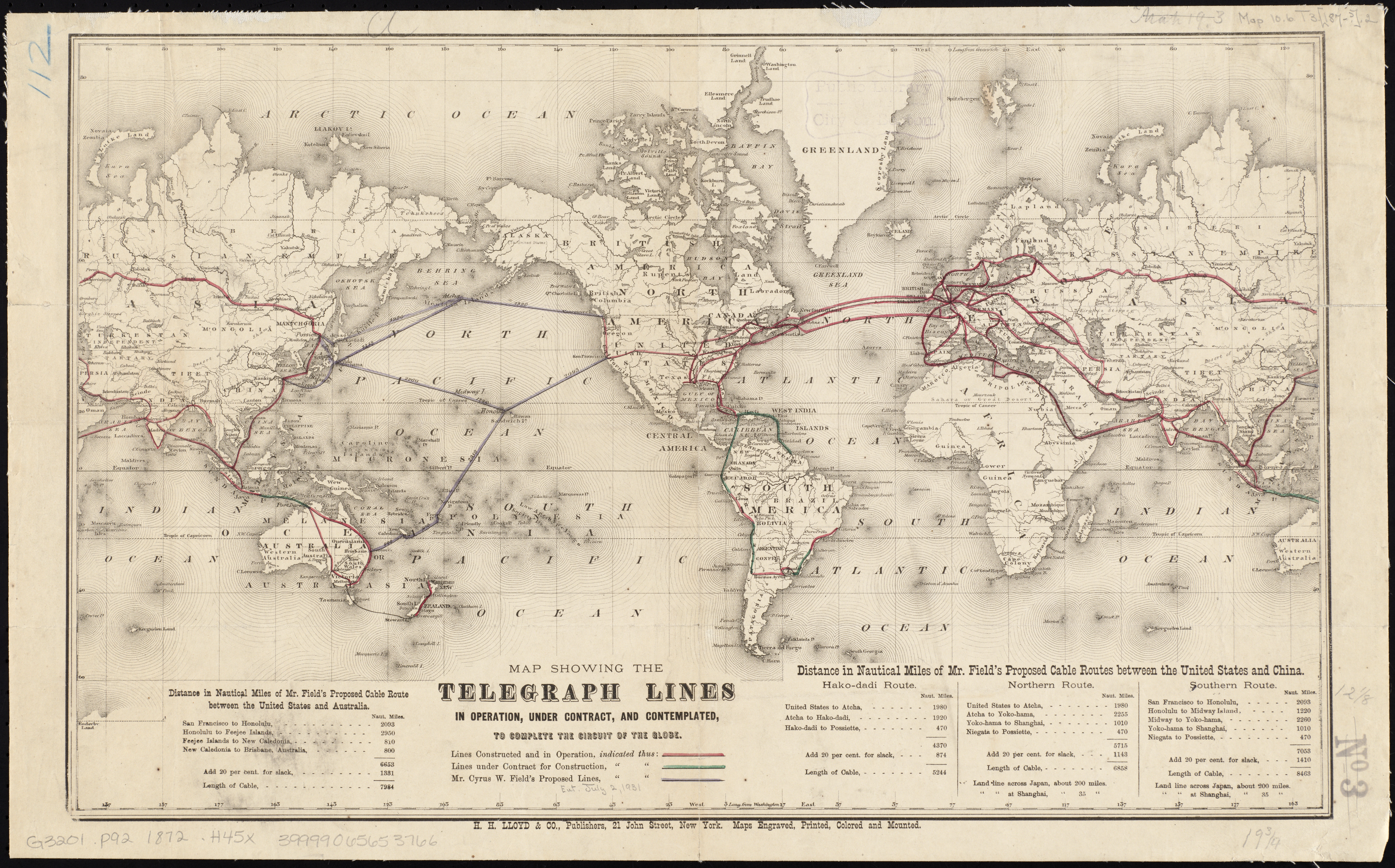 Zoom into this map at . t Author: H.H. Lloyd & Co. Publisher: H.H. Lloyd & Co. Date: 1872 Location: World Dimensions: 31 x 51 cm. Scale: [ca. 1:97,000,000] Call Number: G3201.P92 1872 .H45x